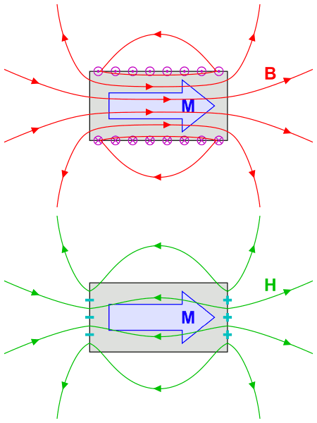 Magnetic fields B and H created by a bar magnet. Magnetization is in blue. Top: the magnetic currents ∇×M (in magenta) create a B field (in red) similar to the one produced by a coil. Bottom: The magnetic charges -∇⋅M (i.e. the magnet poles, in cyan) create an H field (in green) similar to the electric field in a parallel-plate capacitor. B and H are the same outside the magnet but differ inside.